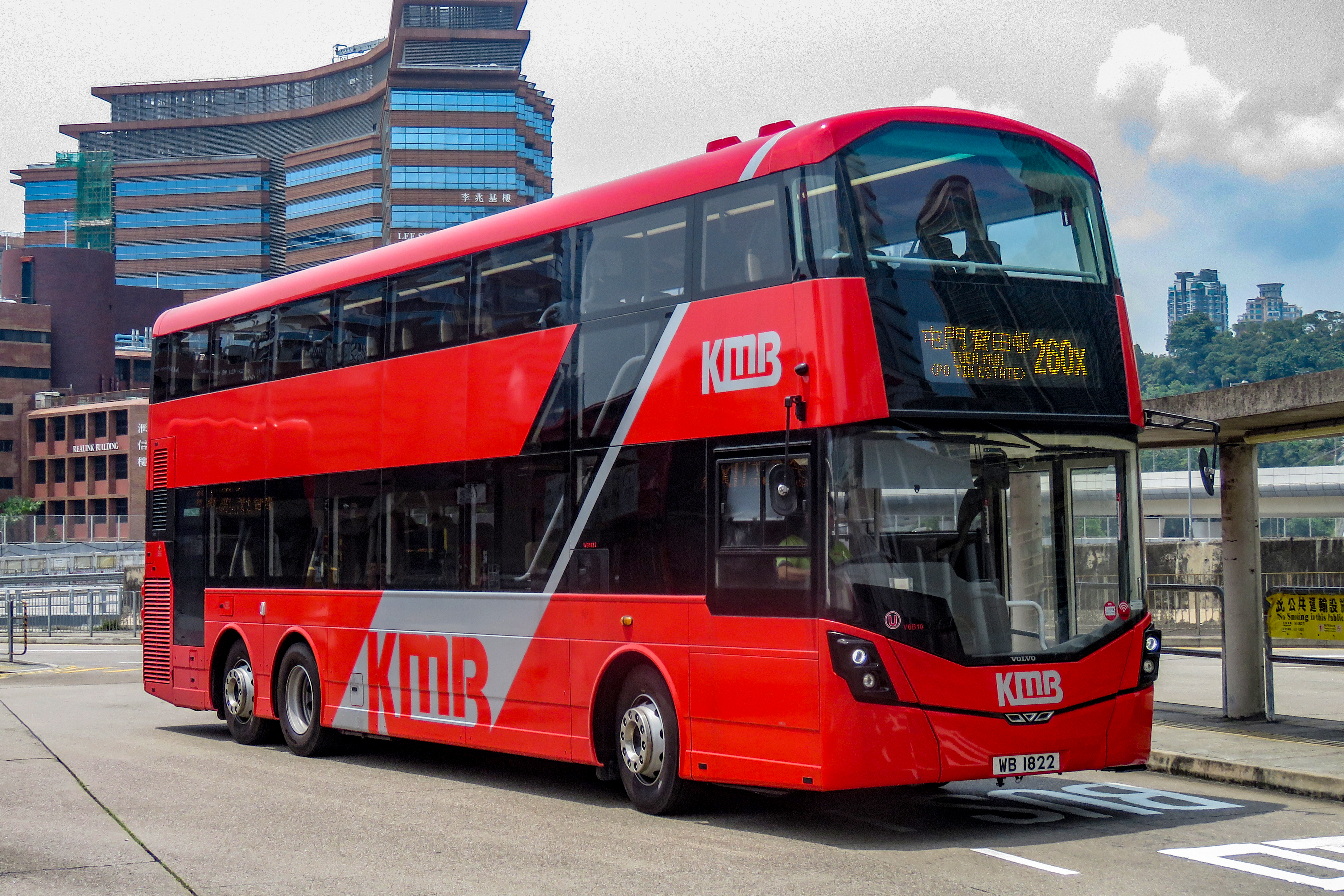 Coincidentally, a new Cityflyer is delivered today...